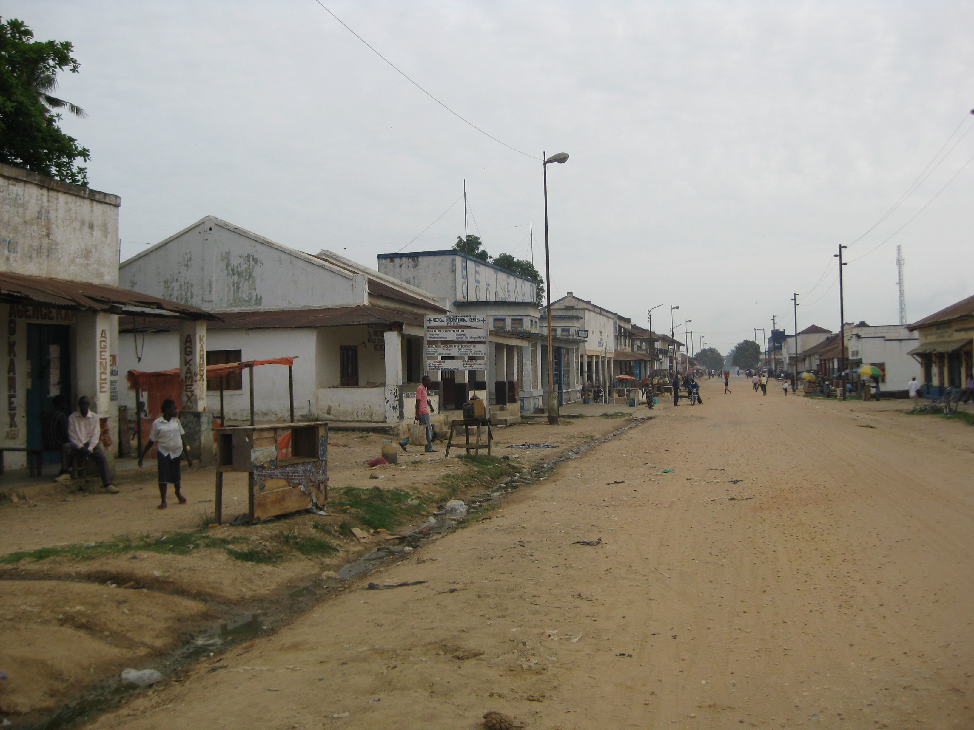 Street in Kindu